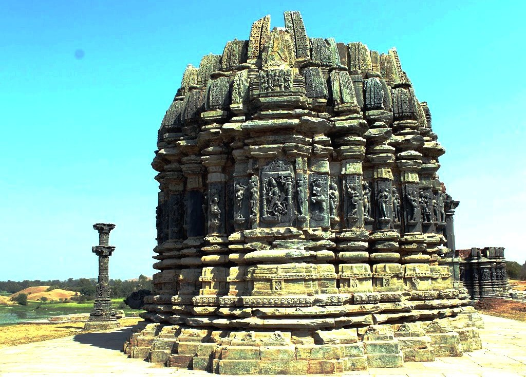 Siva temple and ruins